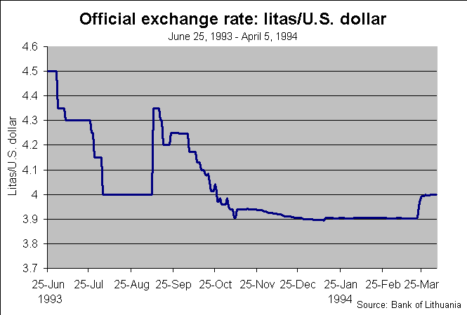 Graph showing official litas and U.S. dollar exchange rate from June 25, 1993 (from the date litas was introduced) to March 5, 1994 (on March 1, 1994 litas was pegged to the U.S. dollar at the rate 4:1). Created by Renata3 using Bank of Lithuania data extracted from [1].